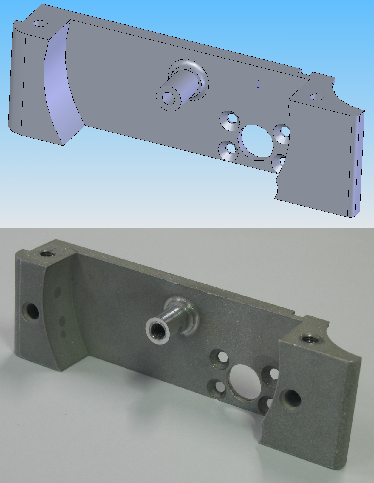 A CAD model (top) and corresponding CNC machined part (bottom), machined from aluminium using a 6-axis milling machine. The part surface was finished using sand blasting.